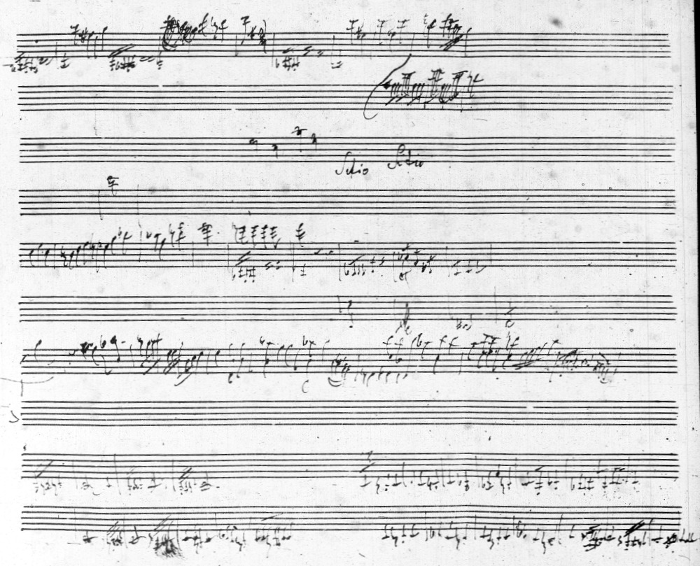 Sketch of "The Seven Last Words of Christ", here the fifth word "Sitio" ("I thirst")